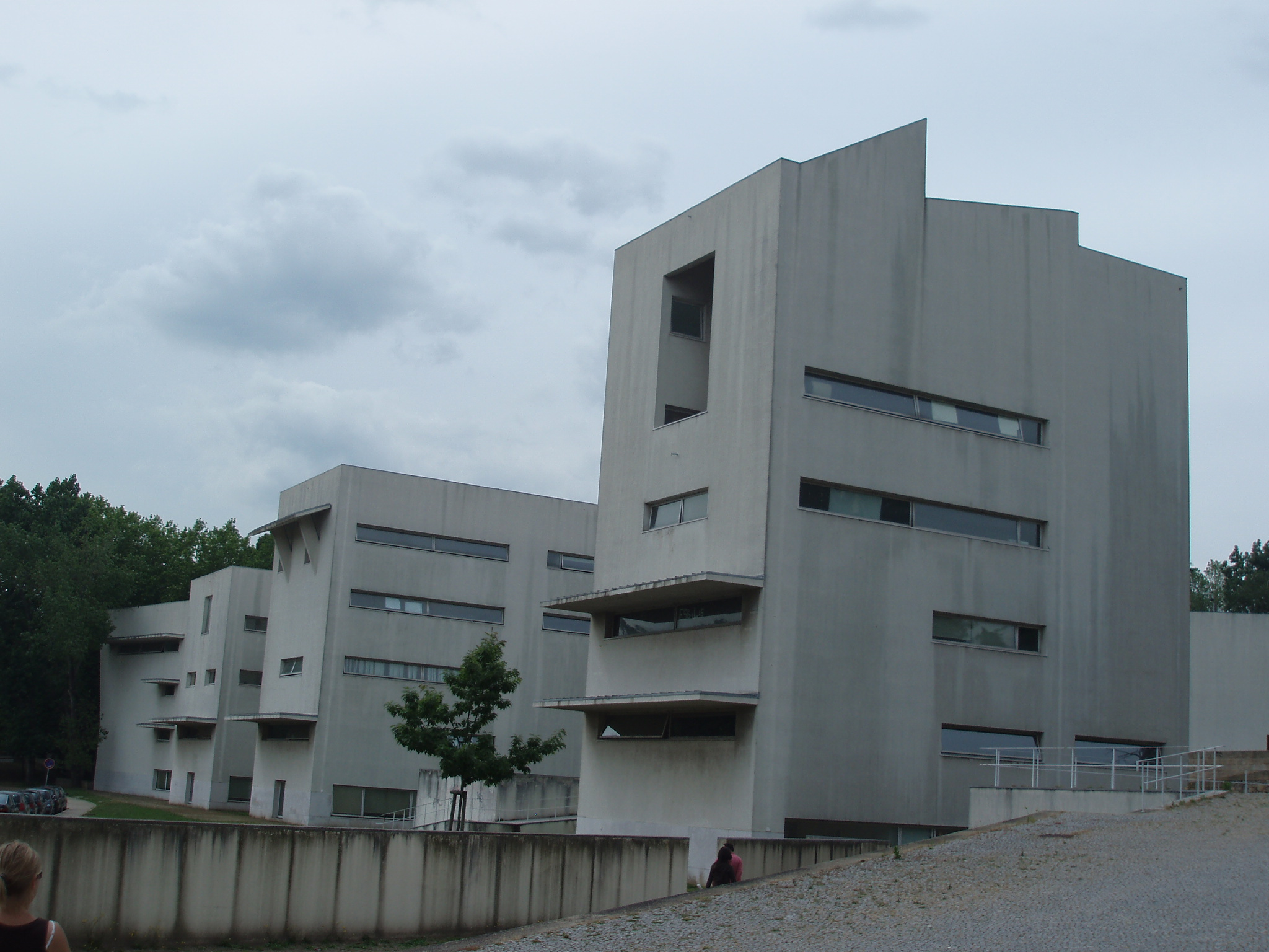 Architecture School of Porto